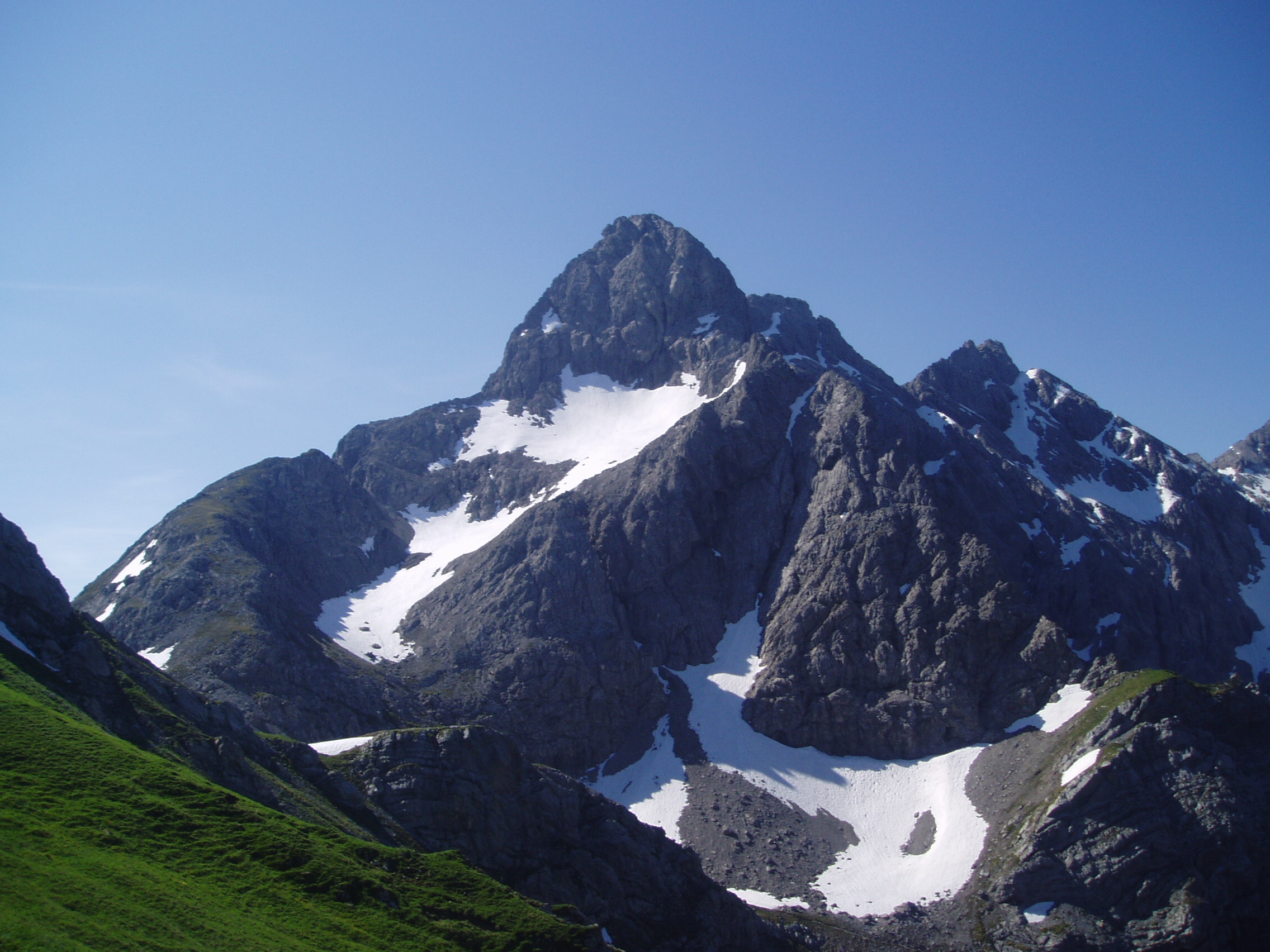 Trettachspitze, a mountain near Oberstdorf, Germany. Taken: 23.6.2005 by Philipp Kindt